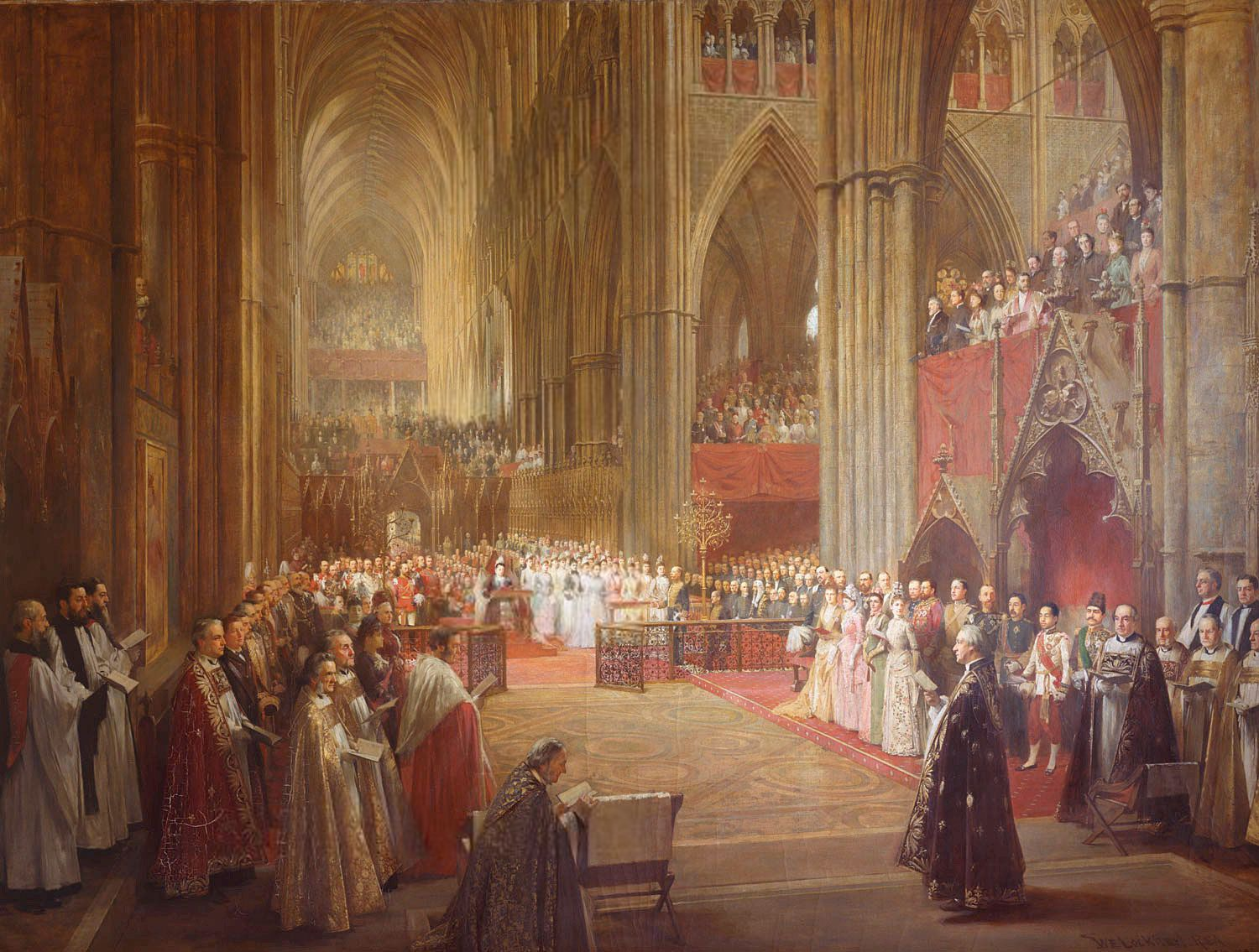 A depiction of a thanksgiving service on 21 June 1887 in Westminster Abbey celebrating the Golden Jubilee of Queen Victoria (24 May 1819 – 22 January 1901), that is, the 50th anniversary of her accession to the throne.